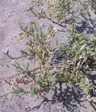 Xerophytic brassica which is the foodplant of Pontia daplidice on Fuerteventura